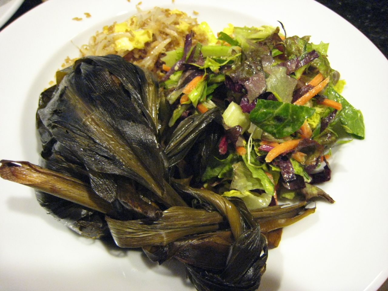 Lau Lau with fried rice, bean sprouts and dark green salad